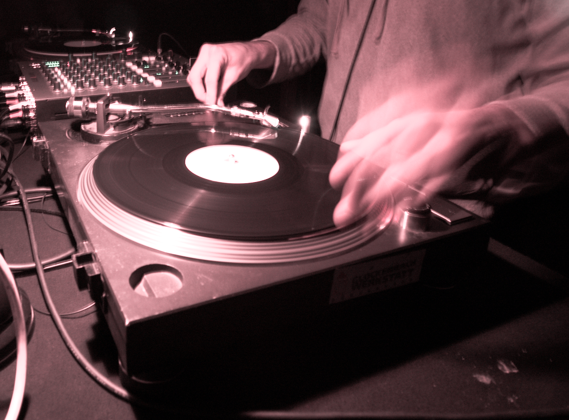 Rave party by the cultural collective Department of Volxvergnuegen in Munich in 2009.